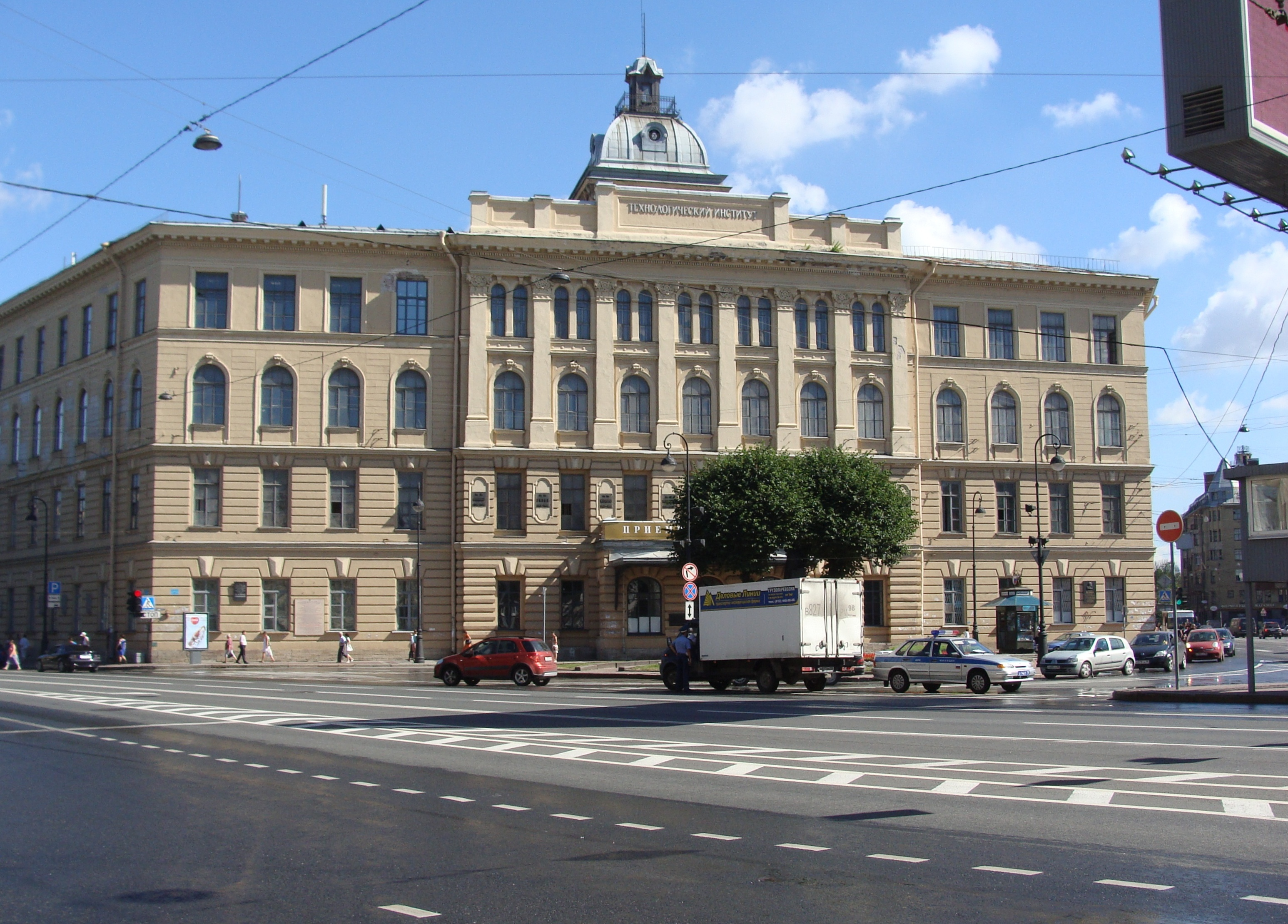 Saint Petersburg State Institute of Technology